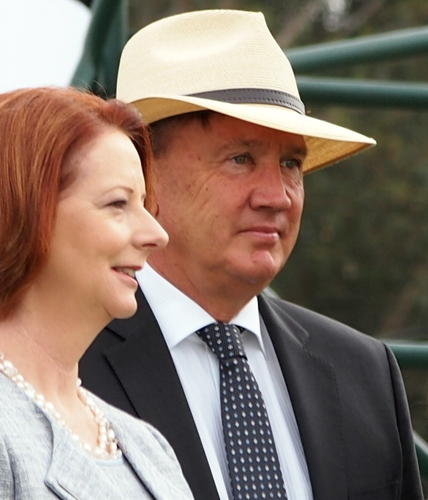 Julia Gillard and Tim Mathieson arriving at the National Flag Raising and Citizenship ceremony in Canberra